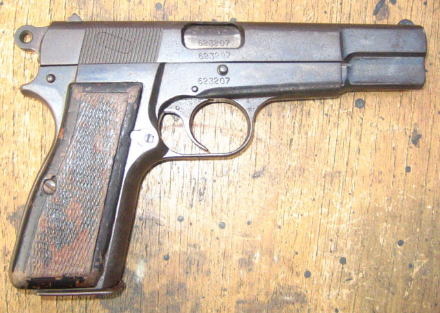 An FN Browning High Power, belonging to Indonesia's Marinir (Marine Corps).